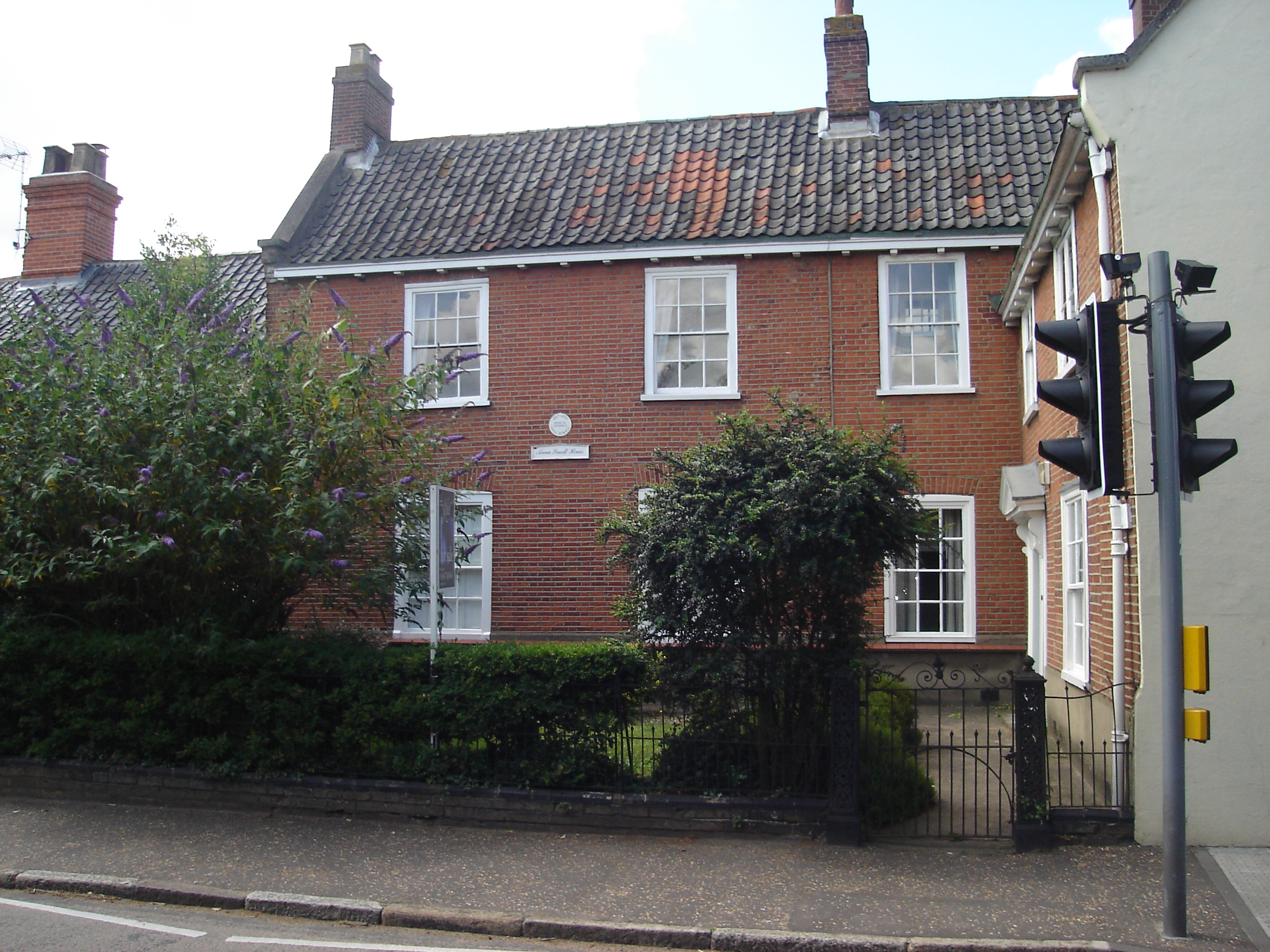 Picture of Anna Sewell's house at Old Catton, Norfolk